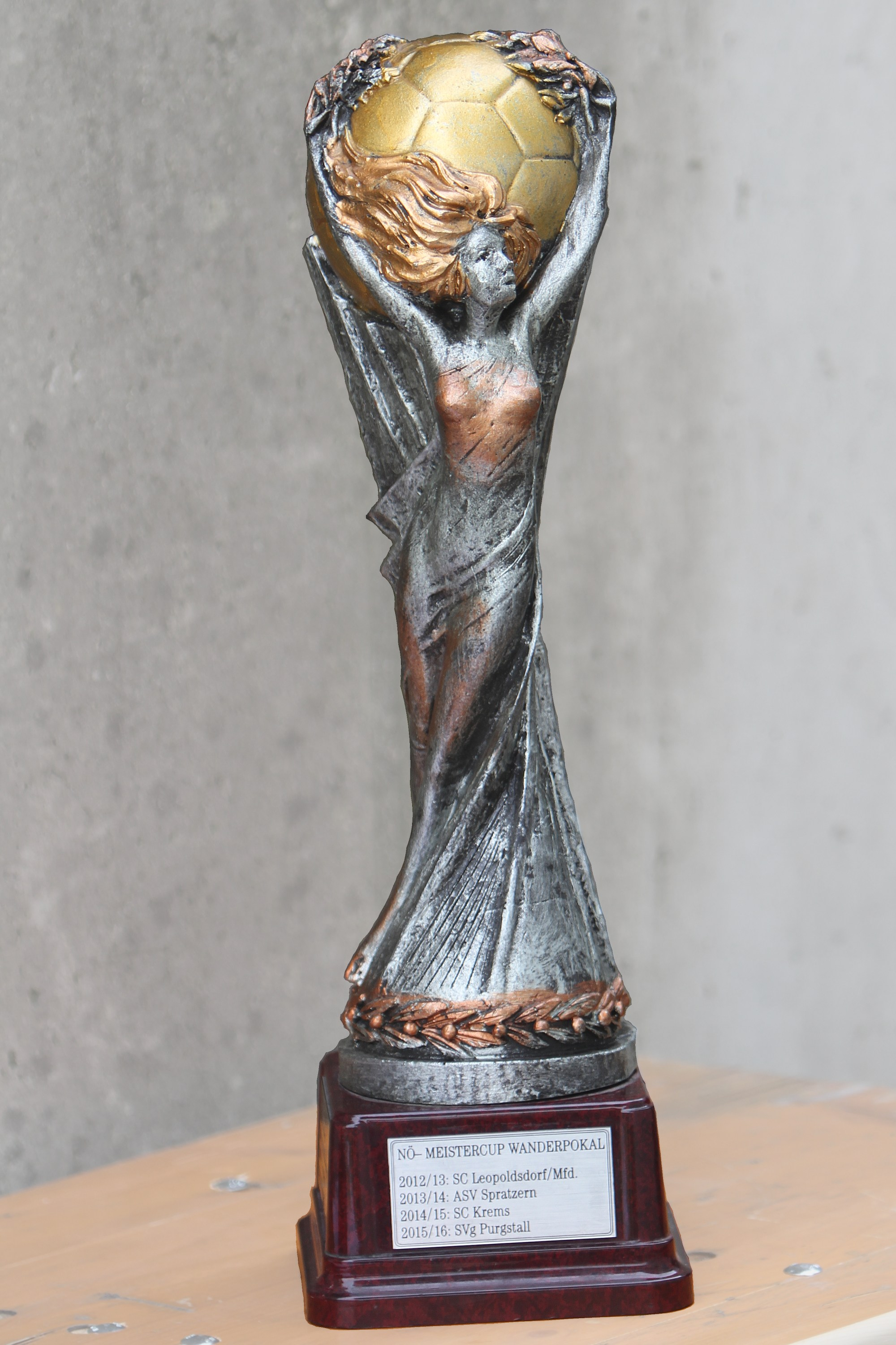 Final of the Lower Austrian Footballcup USV Scheiblingkirchen-Warth (red shirts) vs. USC Rohbach/Gölsen (white shirts) in the "Pittentalstadion" in Scheiblingkirchen. – The photo shows the Challenge Cup of the Niederösterreichischen Fußballcup.